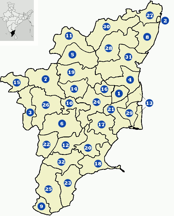 Districts of Tamil Nadu, numbered Ariyalur District Chennai District (M) Coimbatore District Cuddalore District Dharmapuri District Dindigul District Erode District Kanchipuram District Kanyakumari District Karur District Krishnagiri District Madurai District Nagapattinam District Namakkal District Nilgiris District Perambalur District Pudukkottai District Ramanathapuram District Salem District Sivagangai District Thanjavur District Theni District Thoothukudi District Thiruchirapalli District Thirunelveli District Tiruppur district Thiruvallur District Thiruvannamalai District Thiruvarur District Vellore District Viluppuram District Virudhunagar District